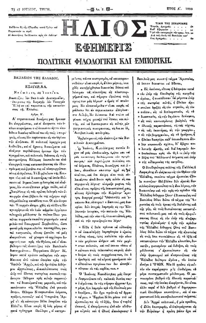 Helios, Political, Philological and Commercial Newspaper, issue 2, first page, 27 June 1833